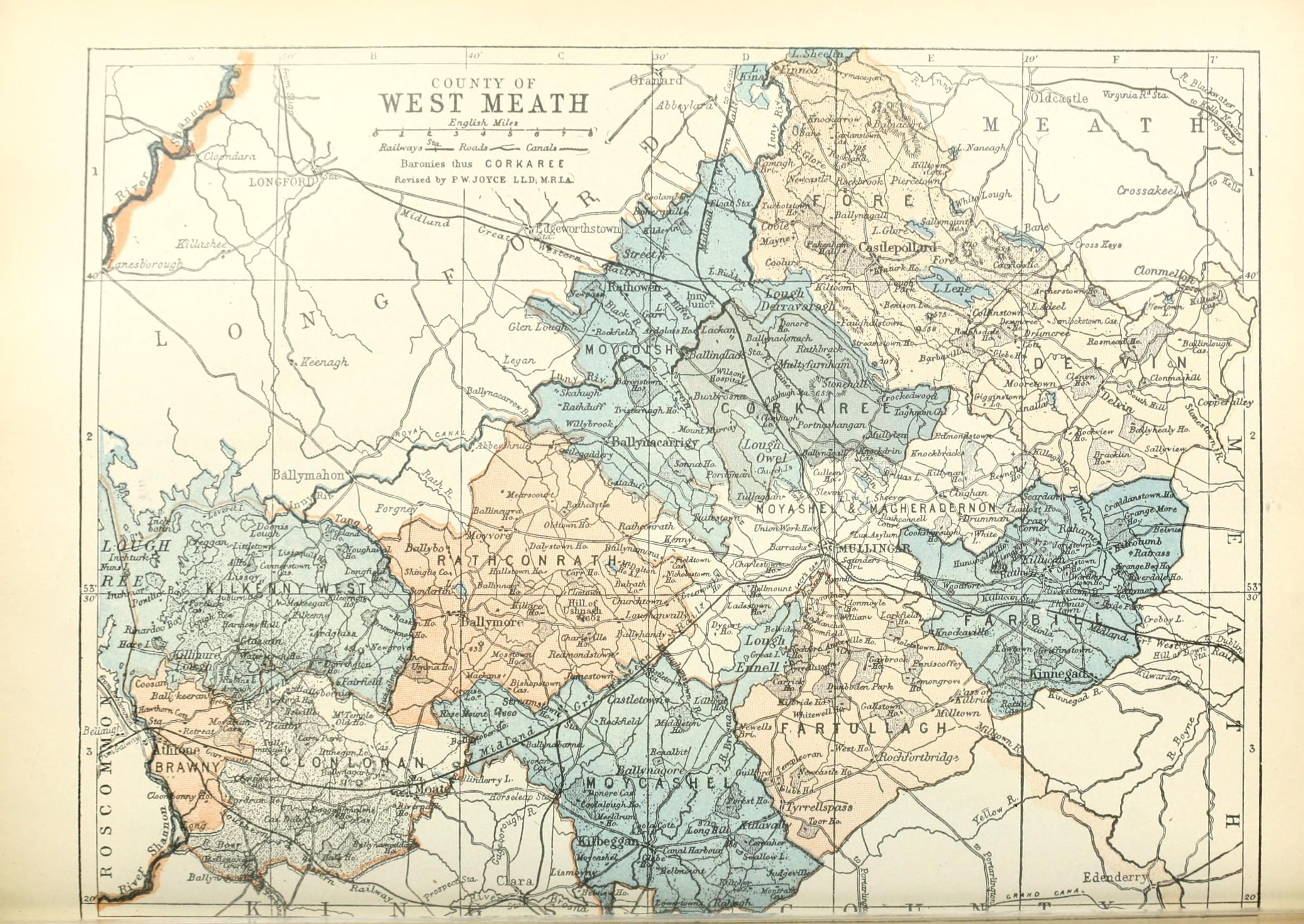 Map of the baronies of County Westmeath in Ireland; taken from Atlas and cyclopedia of Ireland, p.295